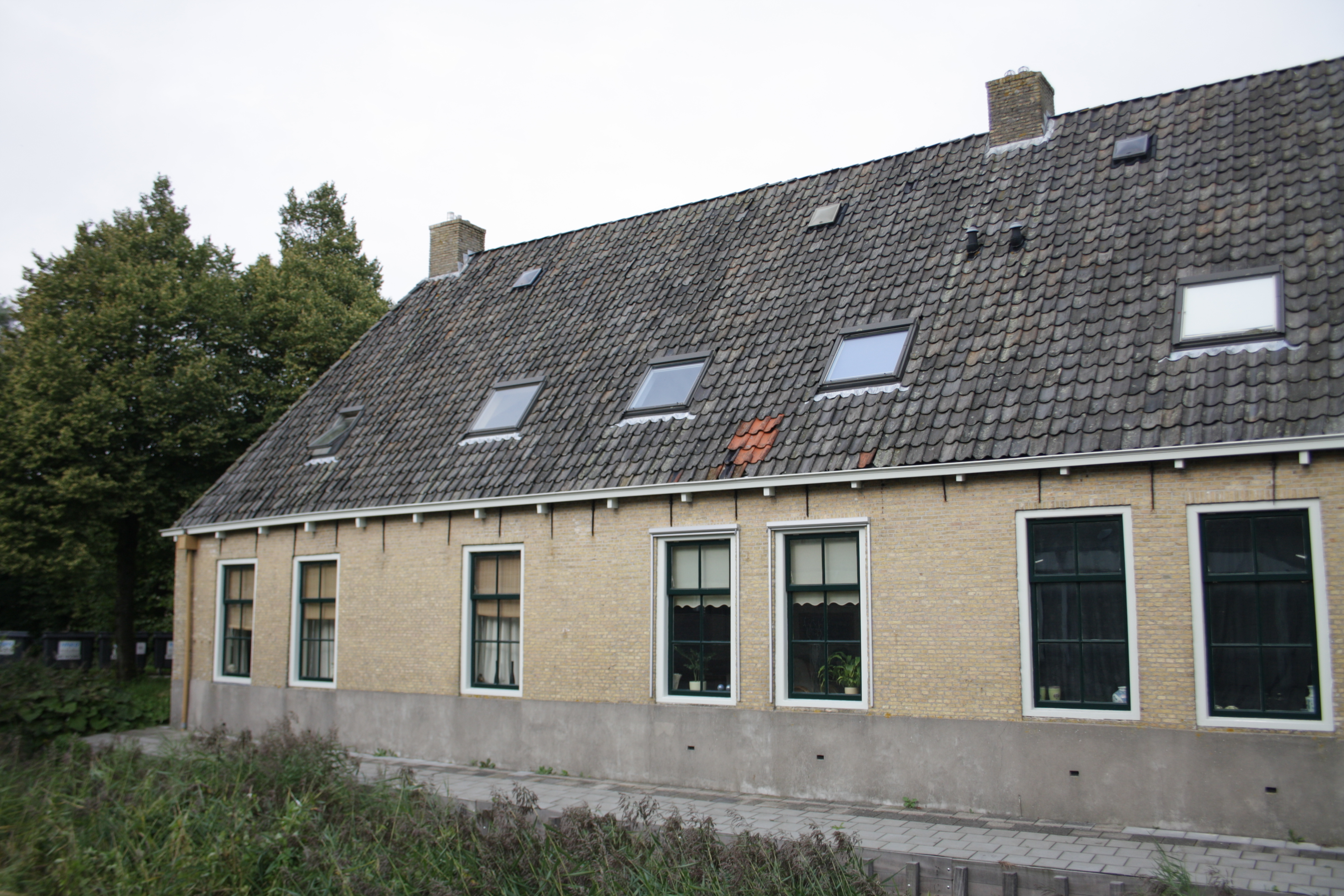 Ald Earmhûs RM 28556